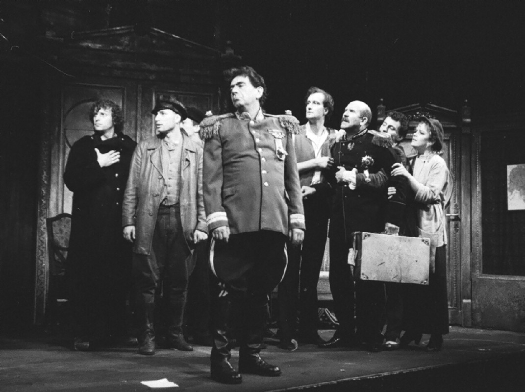 Photo from production of Narrentanz (Činoherní klub Praha, 1991).